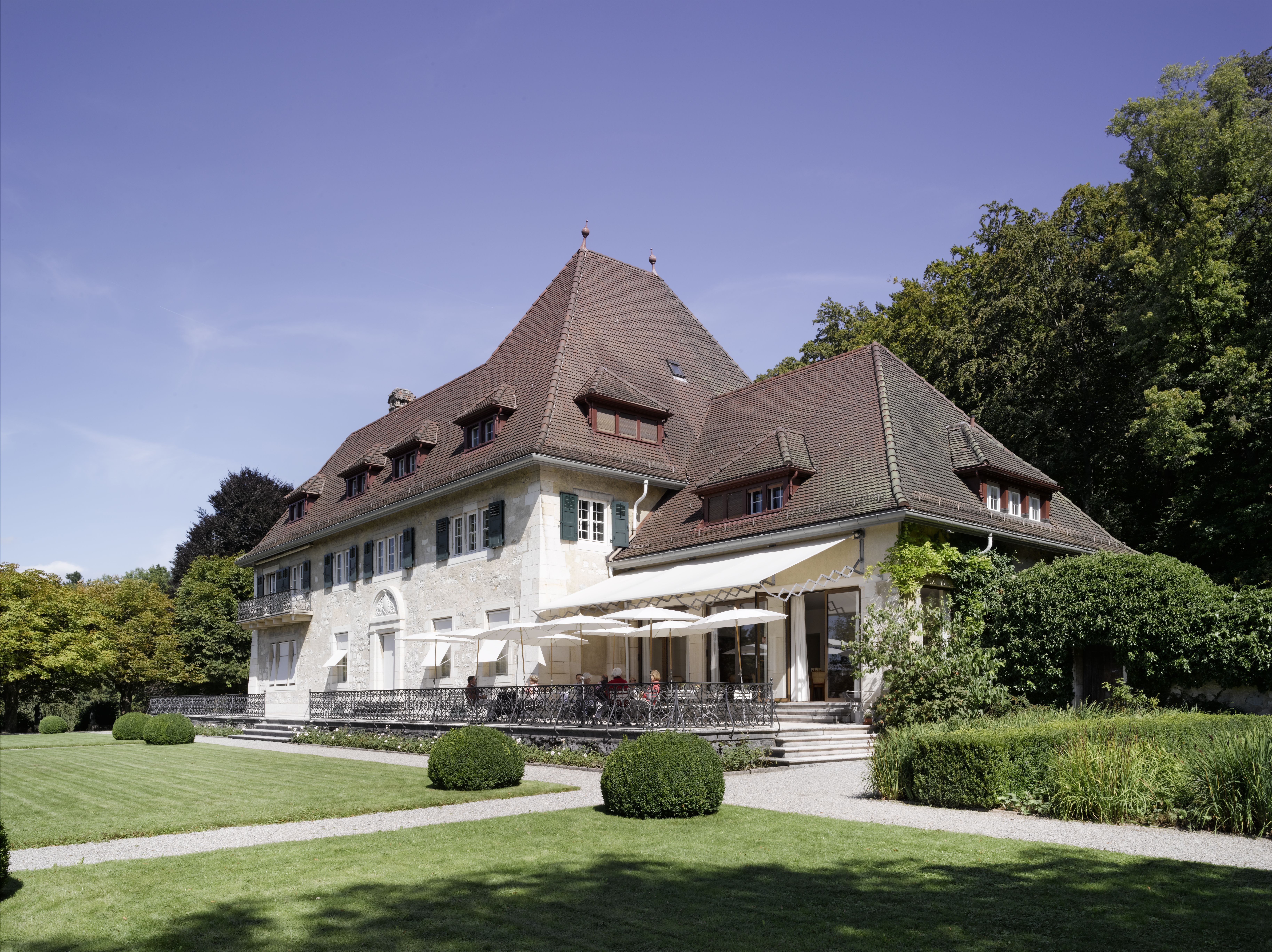 Terrace Museum Café